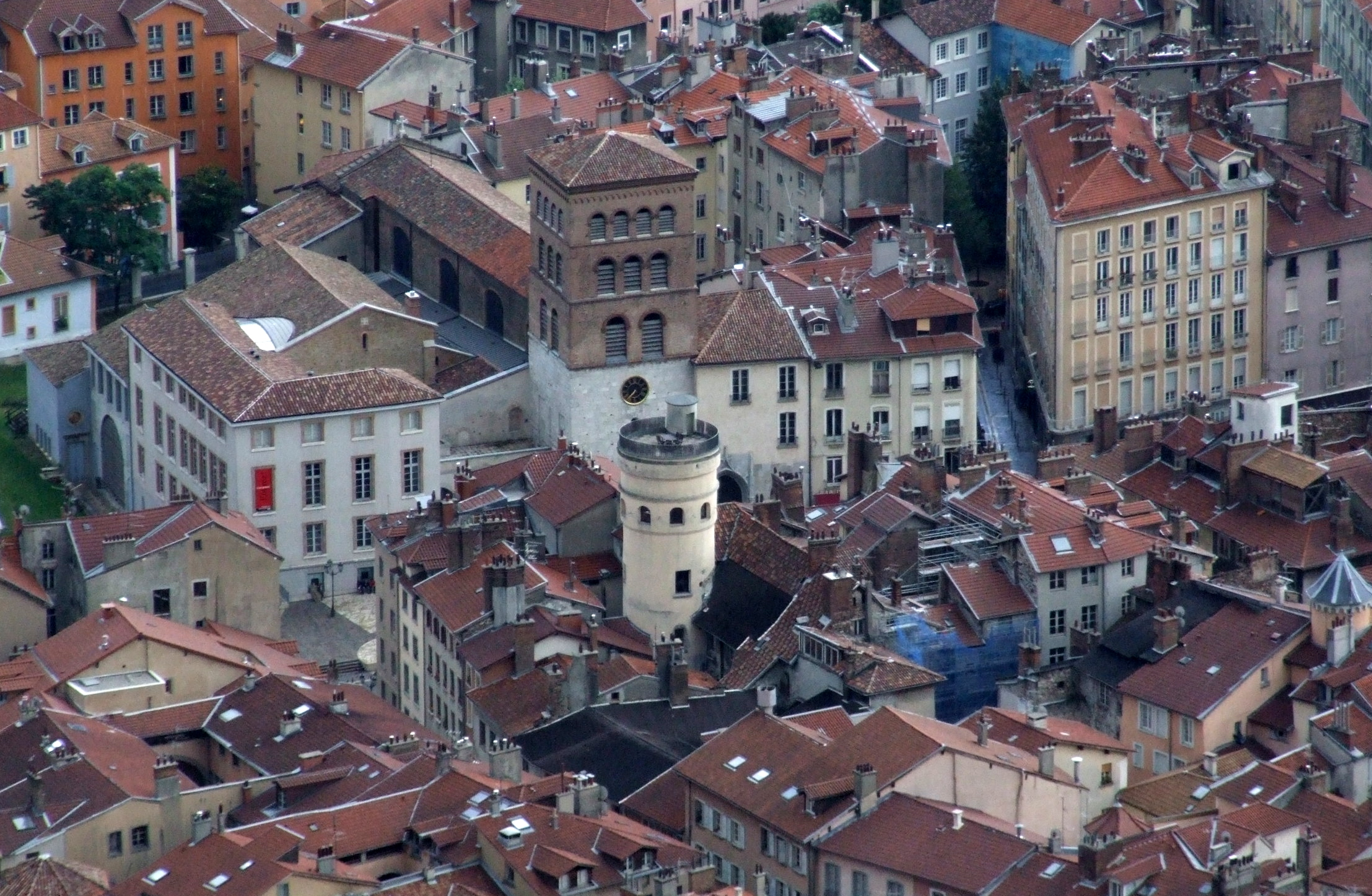 Grenoble, France, FRANCE